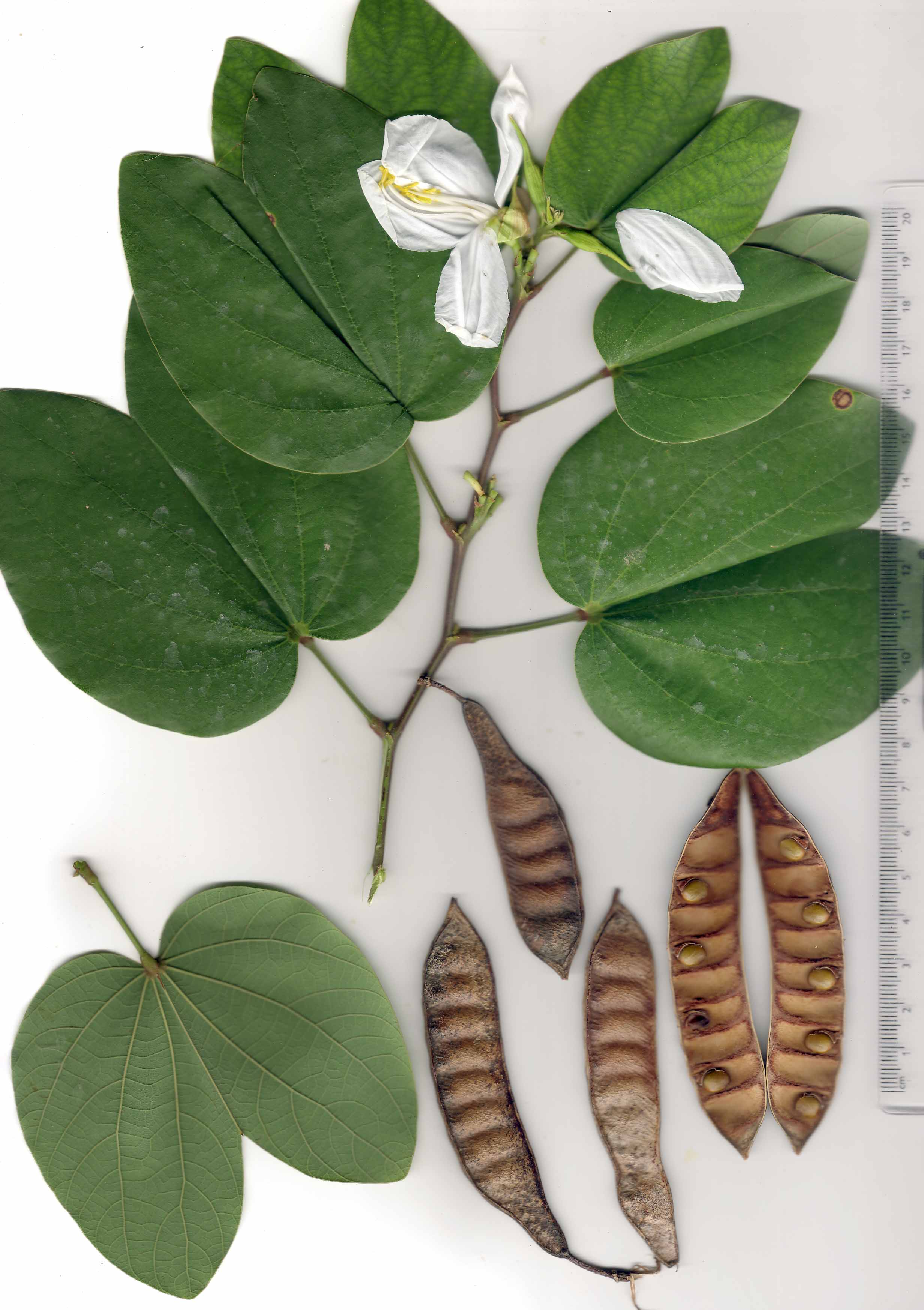 Bauhinia acuminata flower, leaves, seedpods, seeds